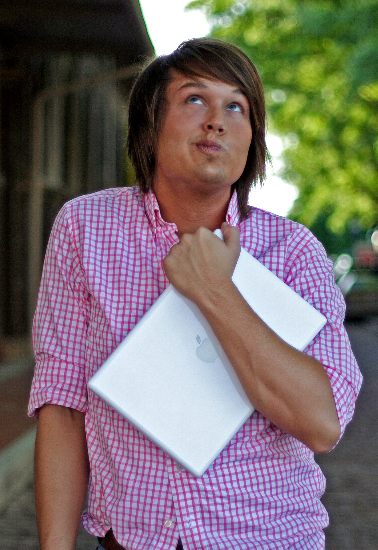 Photo of William Sledd taken April 30, 2007 in downtown Paducah, KY by William Sledd Article: William Sledd